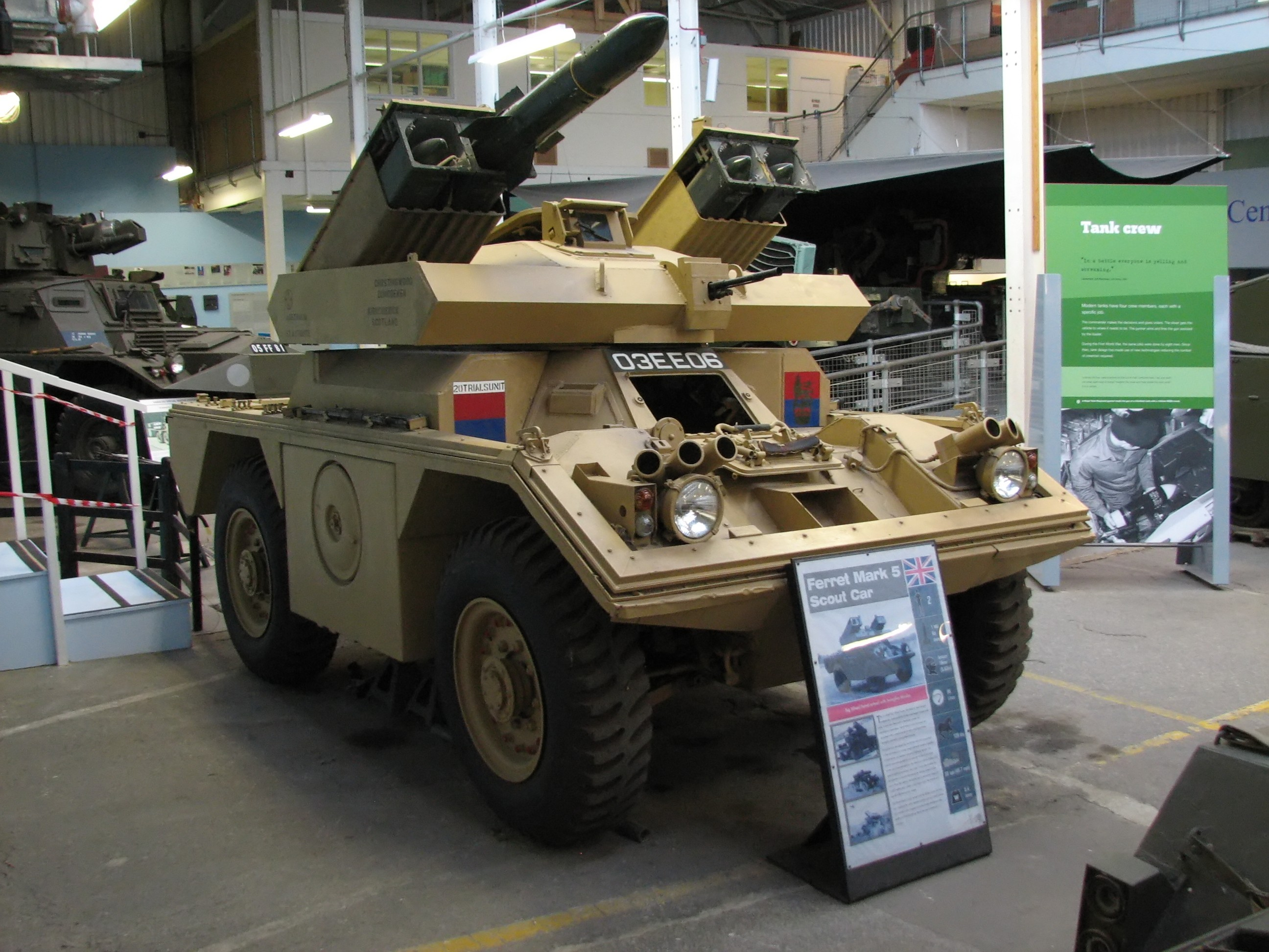 British Ferret armoured car Mk5 at Bovington Tank Museum. It is armed with 4 Swingfire anti-tank missiles.